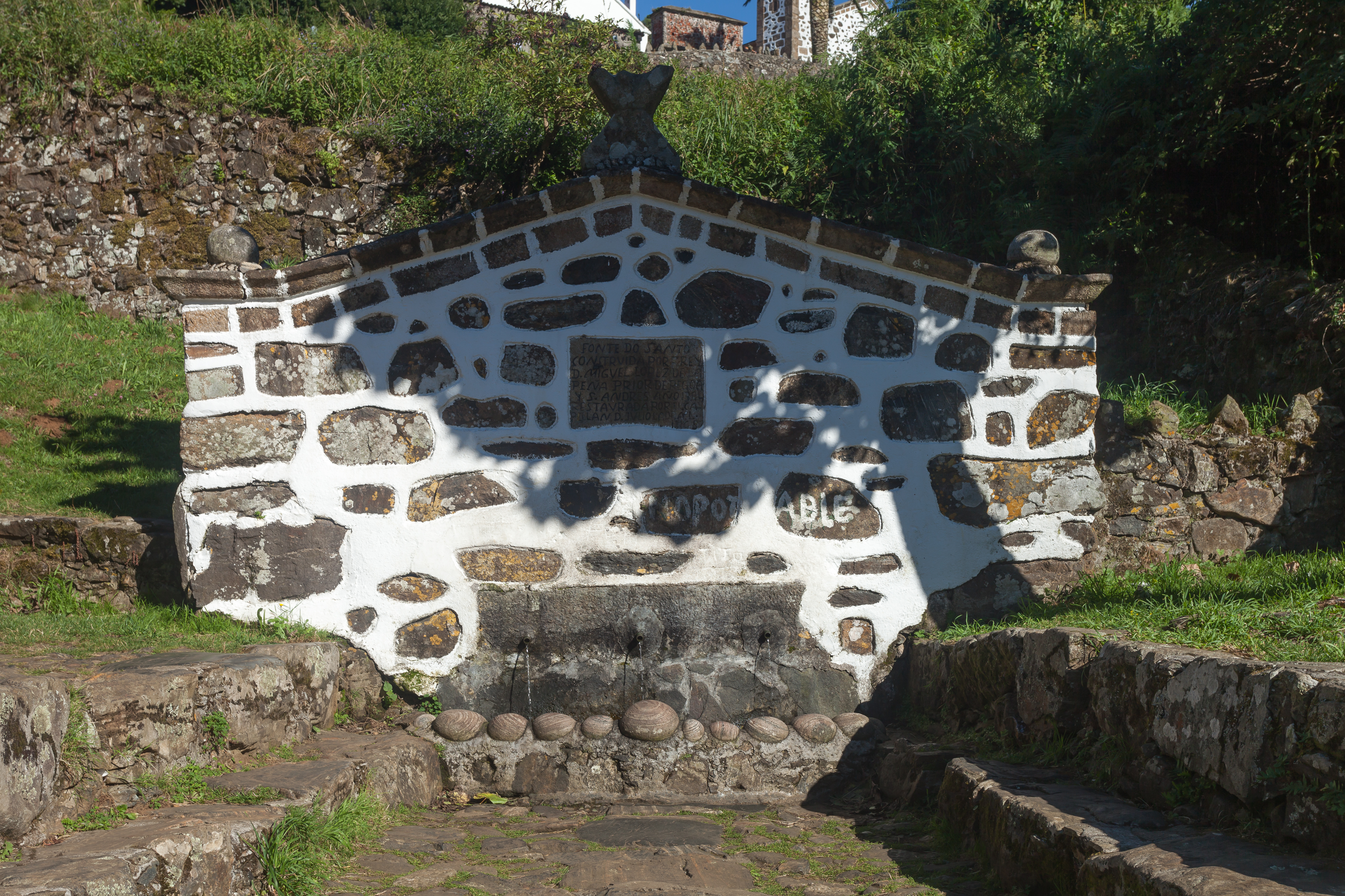 Fountain in Santo André de Teixido, Galicia (Spain).